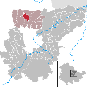 Schwerstedt in Thuringia - District Weimarer Land